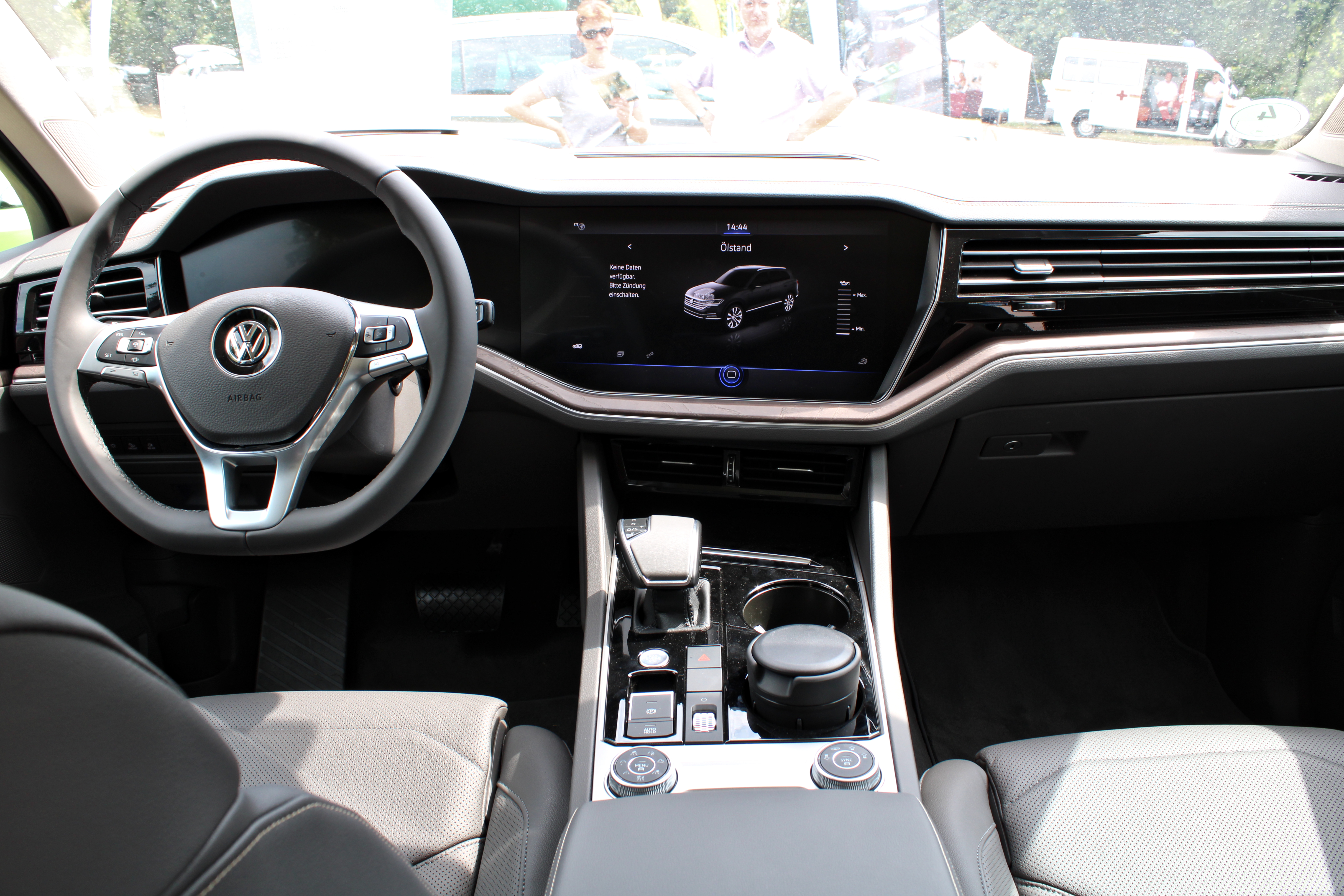 Volkswagen Touareg III at schloss Monrepos